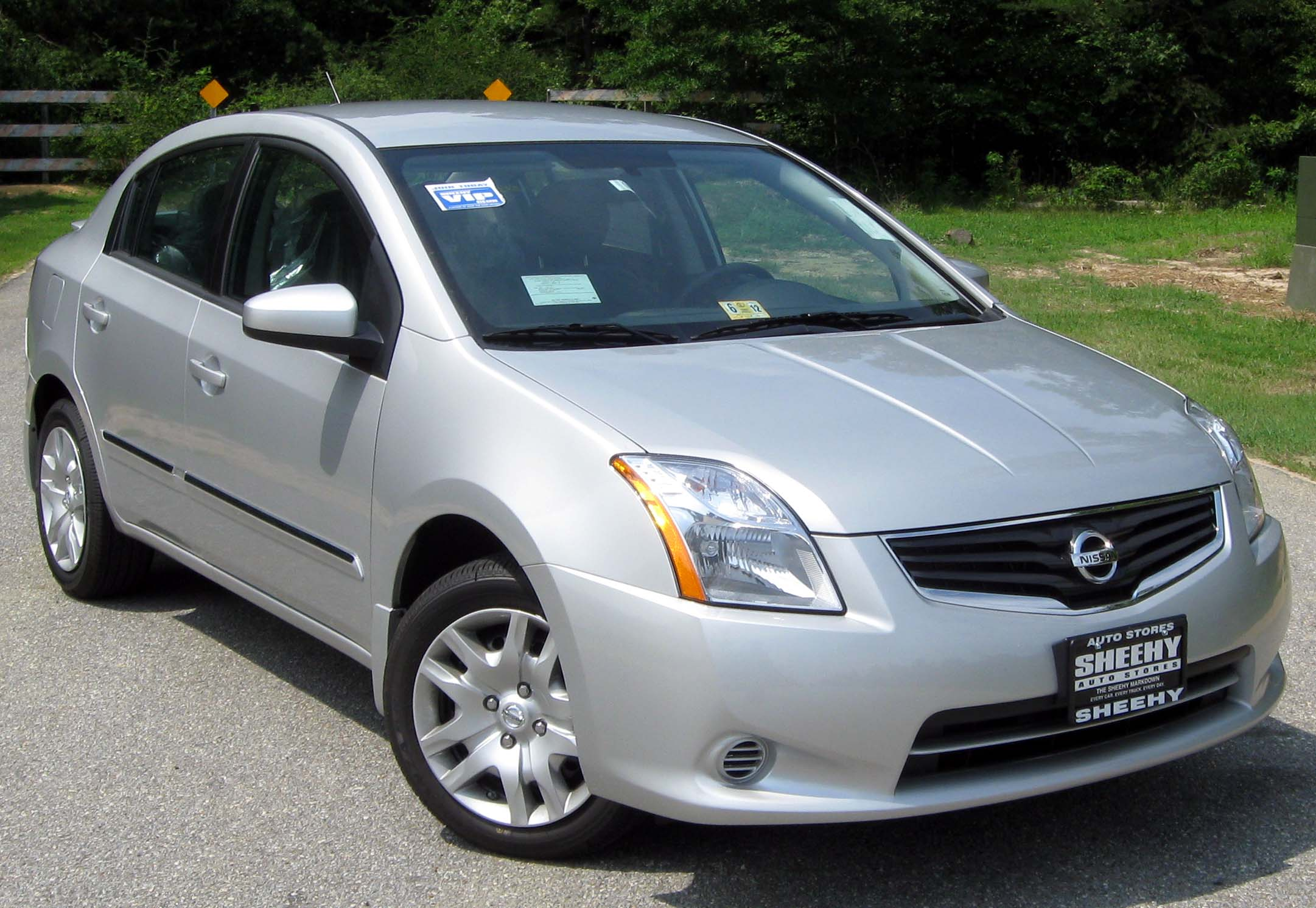 2011 Nissan Sentra photographed in Waldorf, Maryland, USA.